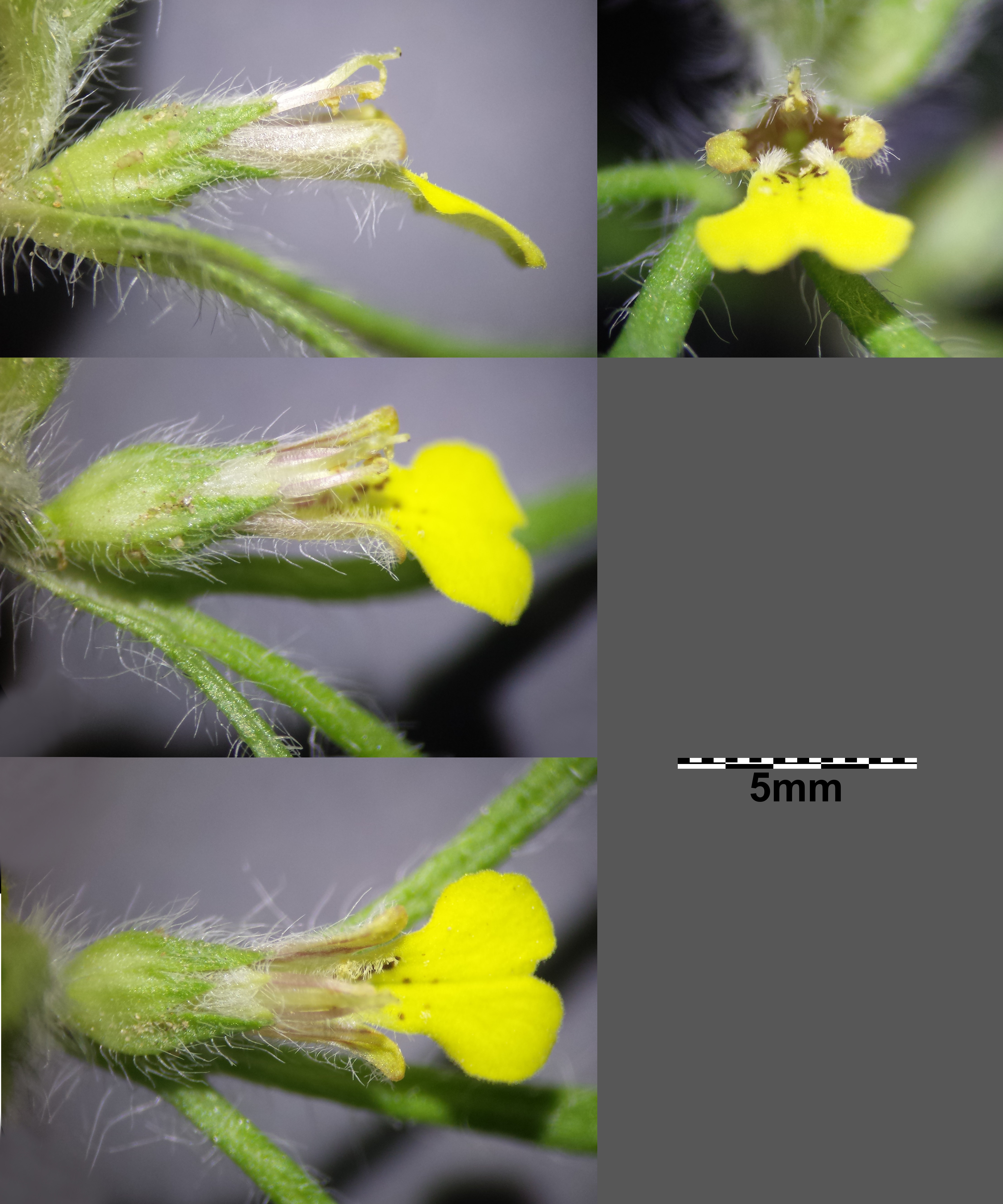 Flower Taxonym: Ajuga chamaepitys ss Fischer et al. EfÖLS 2008 ISBN 978-3-85474-187-9 Location: semi-dry grasslands and wine yards to the north of Oberthern, municipality Heldenberg, district Hollabrunn, Lower Austria - ca. 300 m ü. A. Habitat: slope